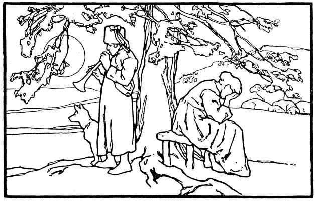 Illustration by Otto Ubbelohde to the fairy tale The Nixie of the Mill-Pond